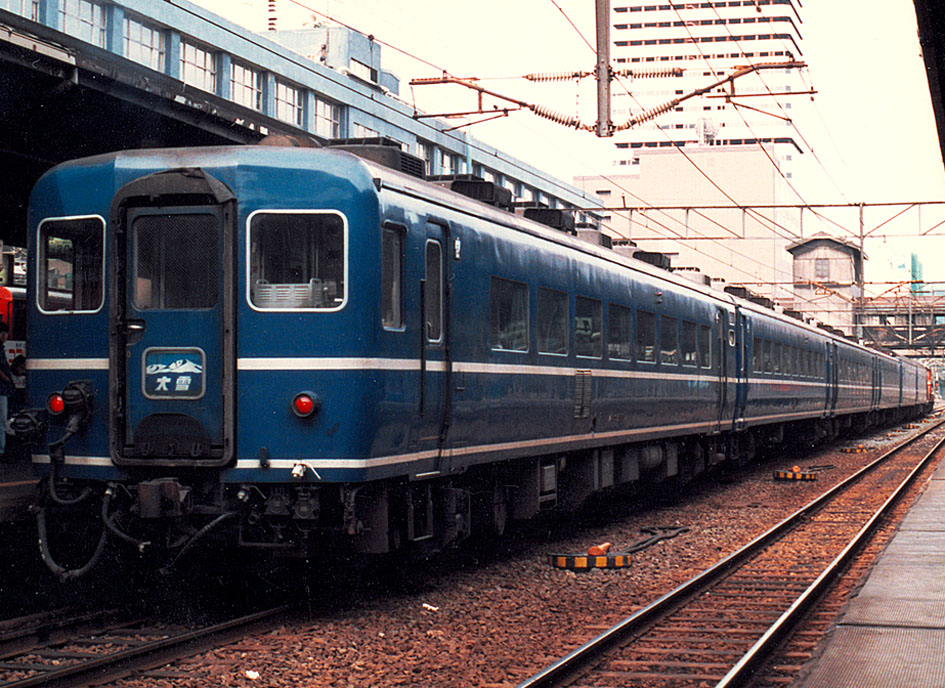 JNR 14 series coaches on an overnight Taisetsu service at Sapporo Station